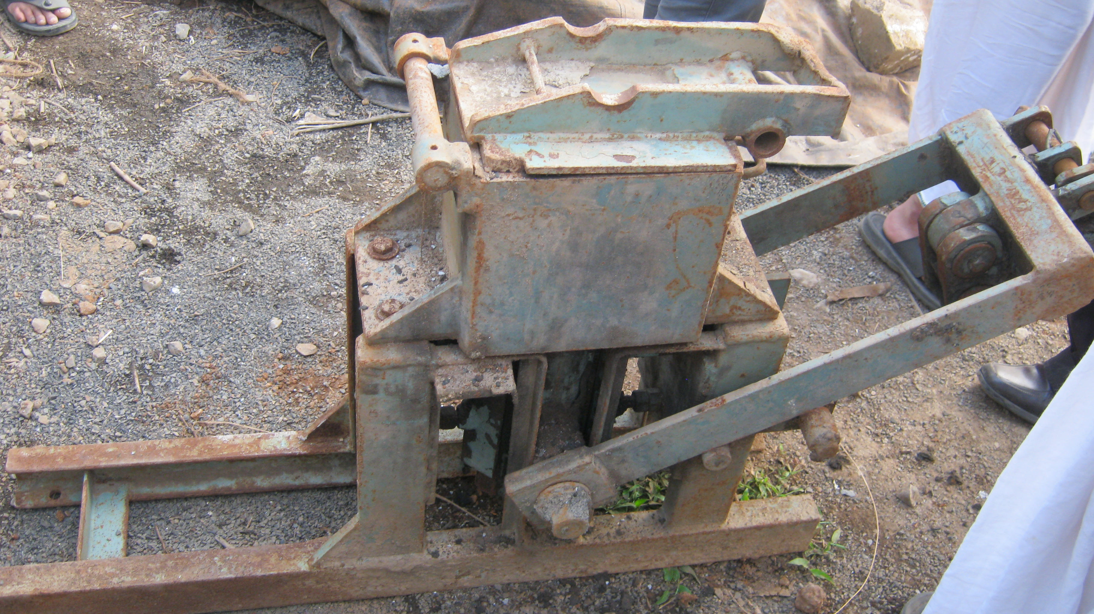 Tool to make Compressed Stabilized Earth Blocks in Govardhan Ecovillage